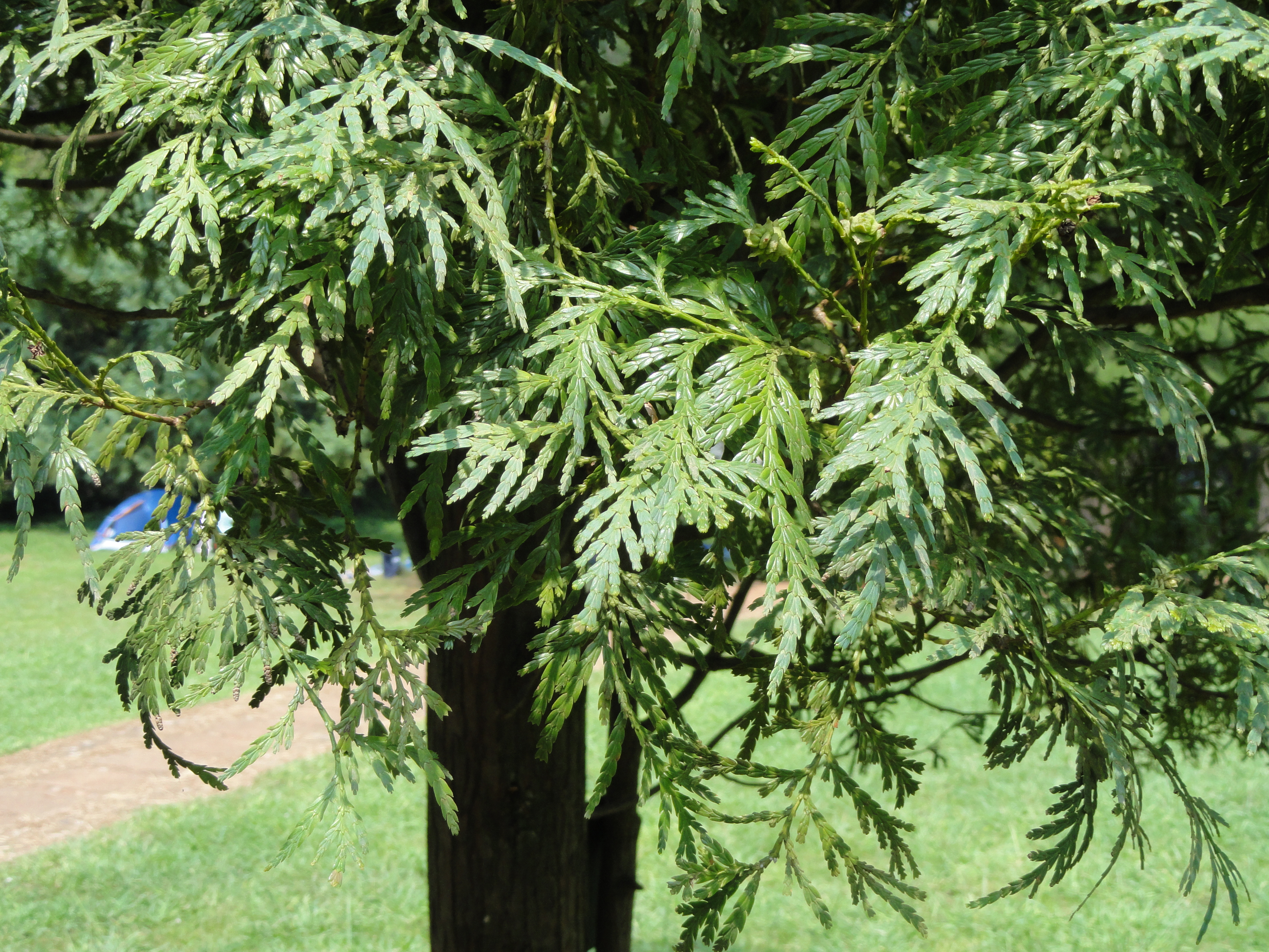 Chamaecyparis hodginsii (syn. Fokienia hodginsii). Plant specimen in the Kunming Botanical Garden, Kunming, Yunnan, China.